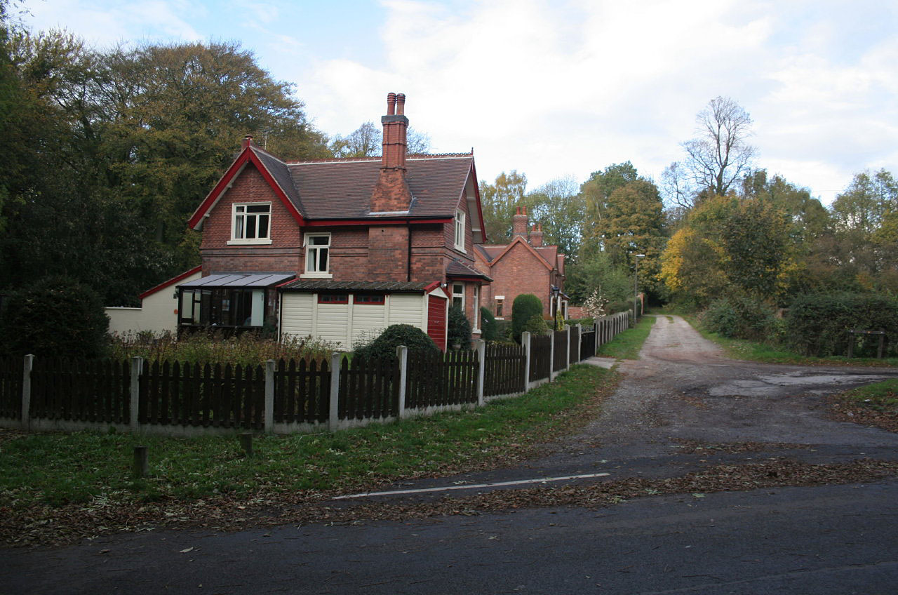 Marlpool Station access road. Marlpool Station was on the former Great Northern Railway branch from Ilkeston to Heanor and closed to passengers in 1928. The house on the left was the stationmaster's house. The road is a public footpath.